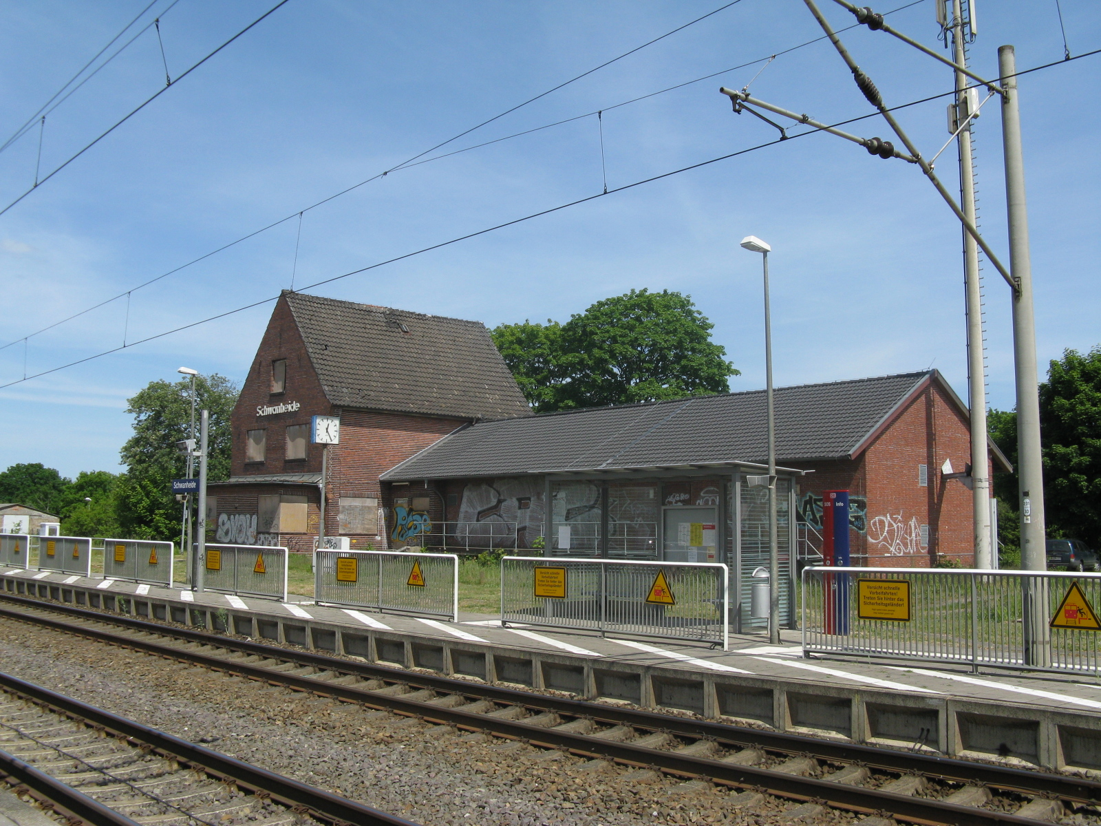 Train station building in Schwanheide, district Ludwigslust-Parchim, Mecklenburg-Vorpommern, Germany